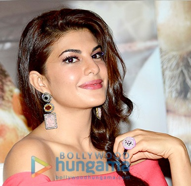 Jacqueline Fernandez promote their film ‘Brothers’